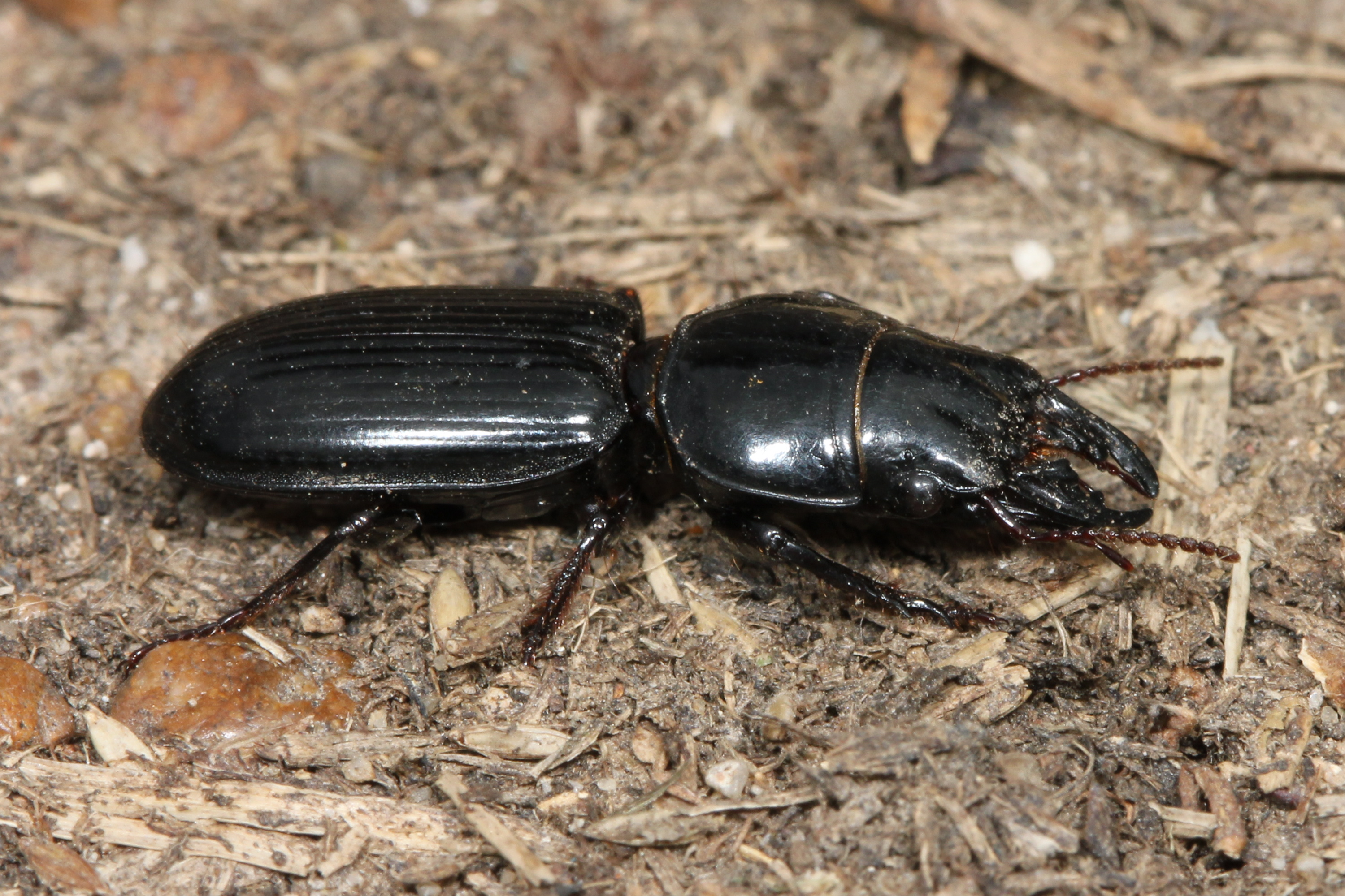 Big-headed Ground Beetle (Scarites subterraneus) in Nashville, Tennessee